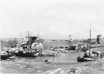 Krautsand harbor, 1951. Drochtersen, Germany.